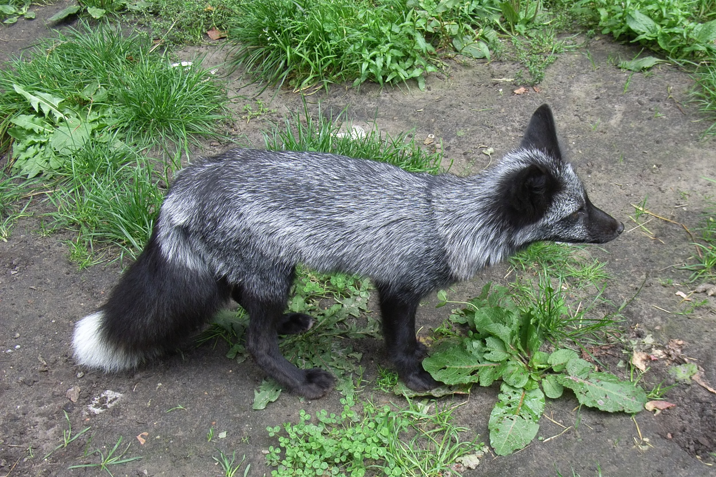 Silver fox